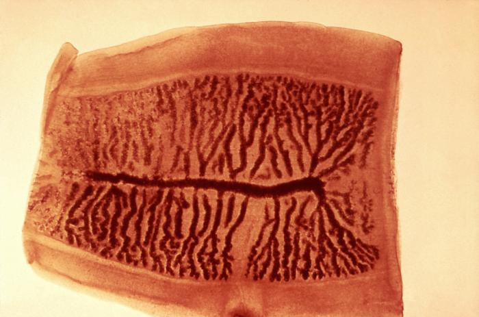 ID#: 5259 Description: This micrograph reveals the morphology of a gravid proglottid from the cestode Taenia saginata, a tapeworm. The number of primary lateral uterine branches, i.e. the dark India ink stained irregularities, allows differentiation between the two species: T. saginata has 15-20 branches on each side, while Taenia solium has 7-13. Content Providers(s): CDC Creation Date: 1986 Copyright Restrictions: None - This image is in the public domain and thus free of any copyright restrictions. As a matter of courtesy we request that the content provider be credited and notified in any public or private usage of this image.